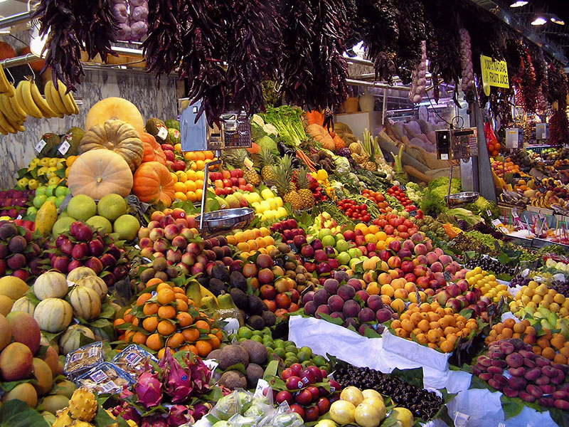 I modified the general contrast, gradation and colors of the original in Adobe Photoshop